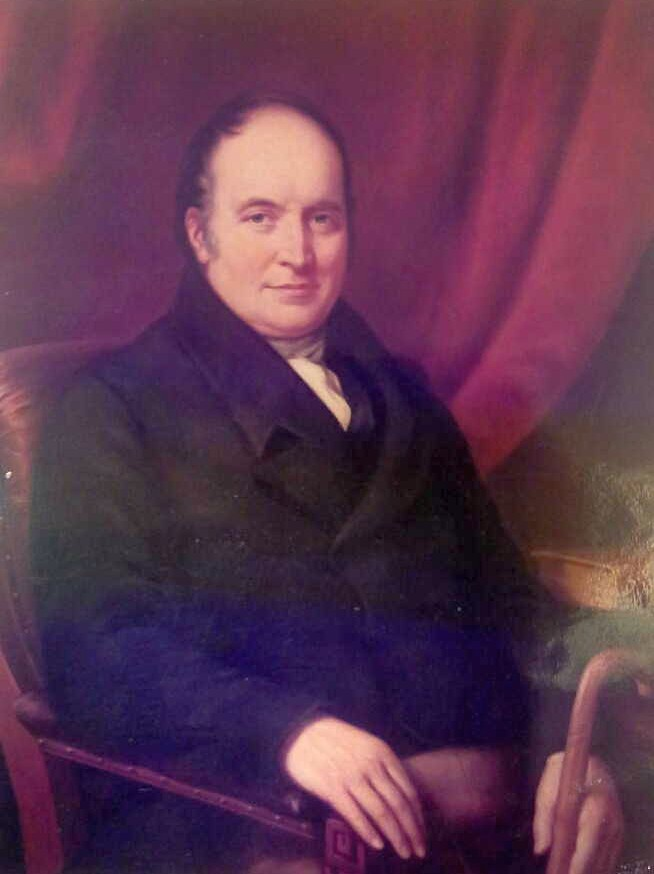 Portrait of Henry Overton Wills I (1761-1826)